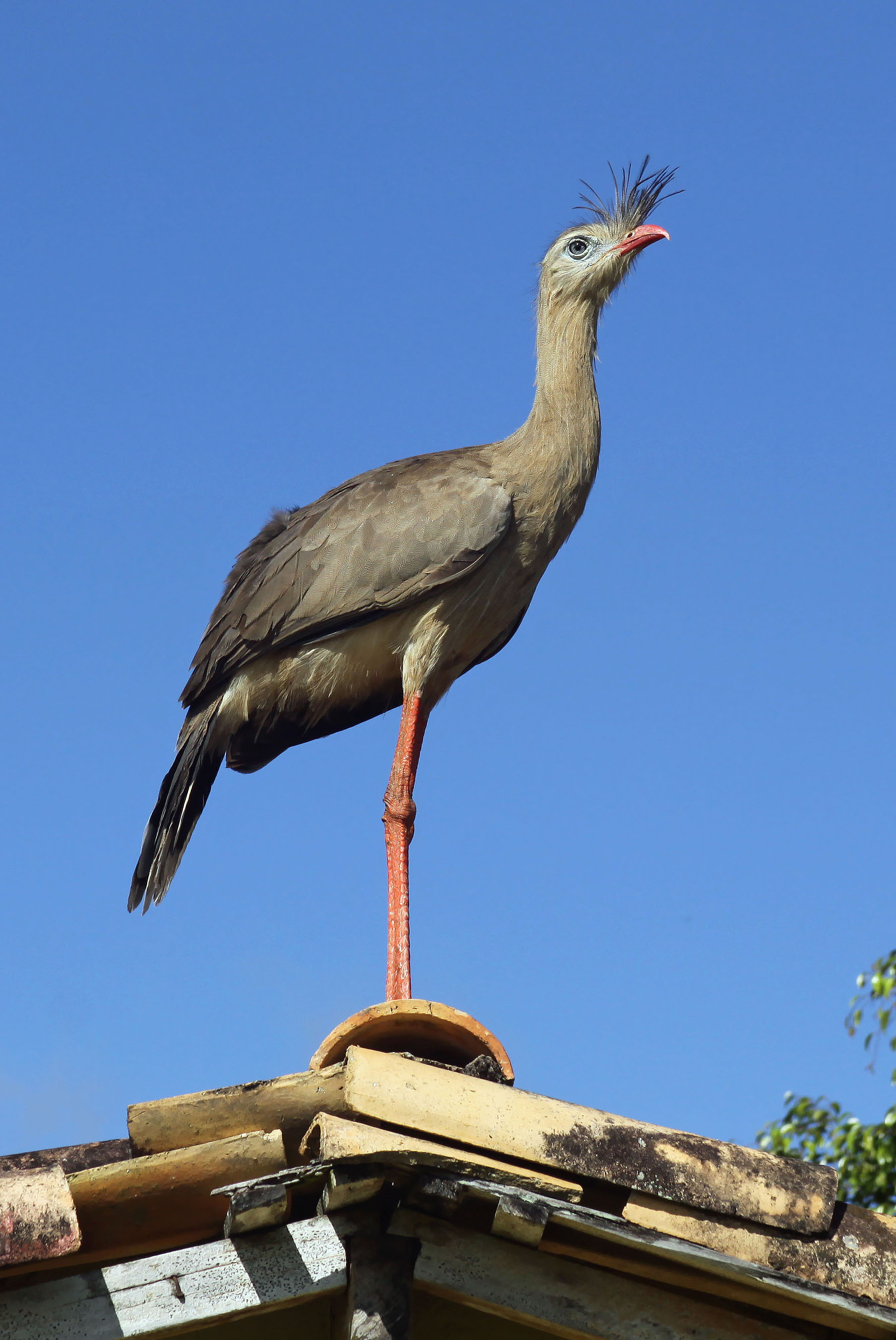 Red-legged seriema (Cariama cristata) in Vargem Bonita, Serra da Canastra, Minas Gerais.